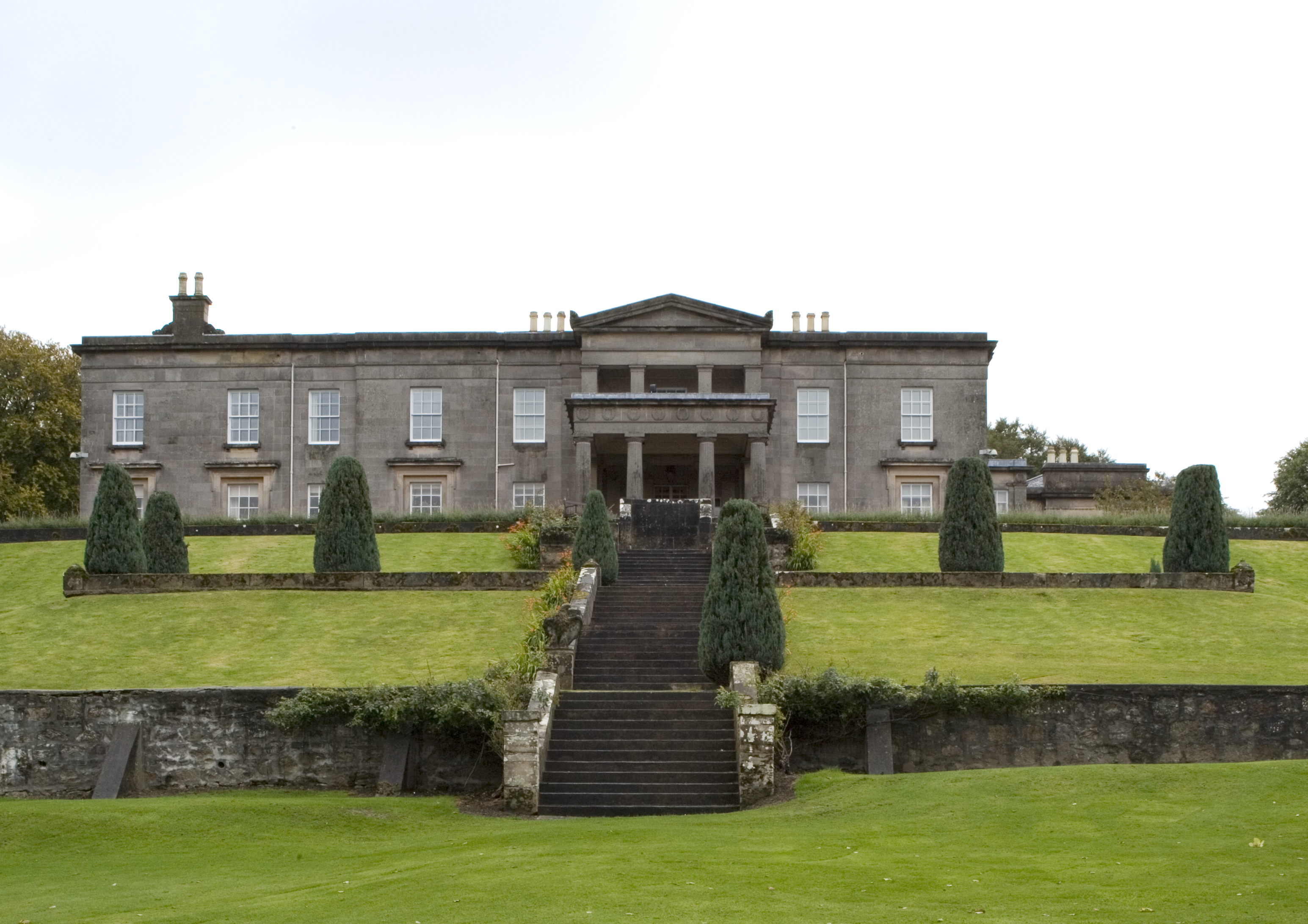 Aberlour House, viewed from the north, showing William Robertson's original frontage, the porte-cochere added by his nephews A & W Reid, and Robert S. Lorimer's extensions to the east.